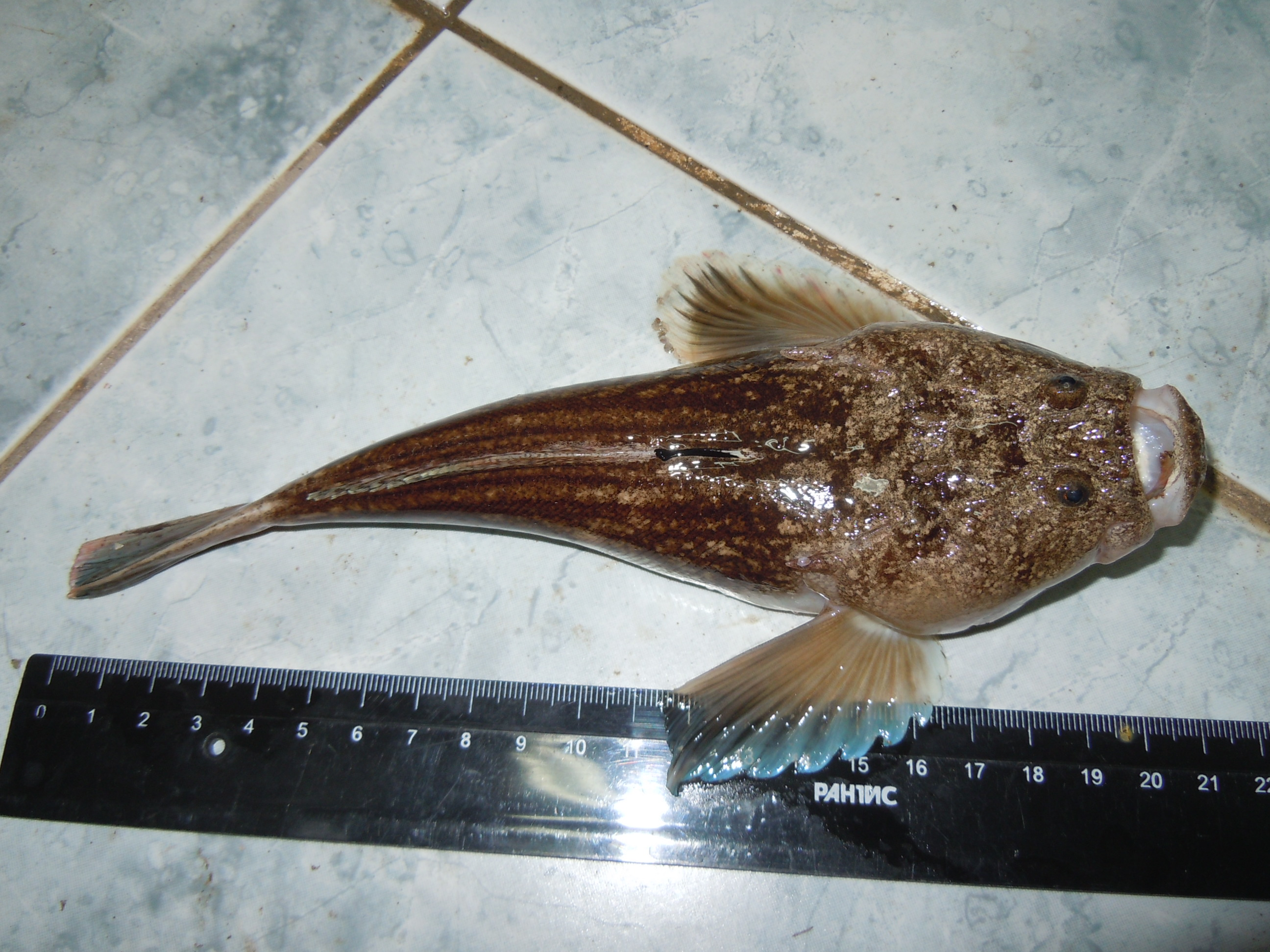 Atlantic stargazer (Uranoscopus scaber) from the Black Sea near Gelendzhik, Caucasus